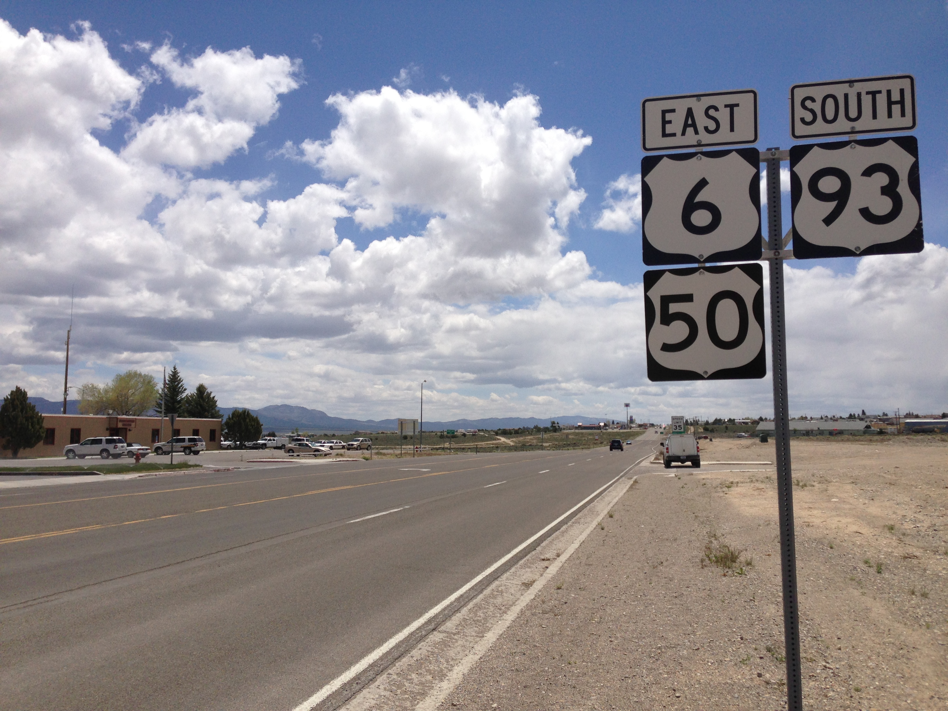 View east along U.S. Route 6 and U.S. Route 50 and south along U.S. Route 93 in Ely, Nevada